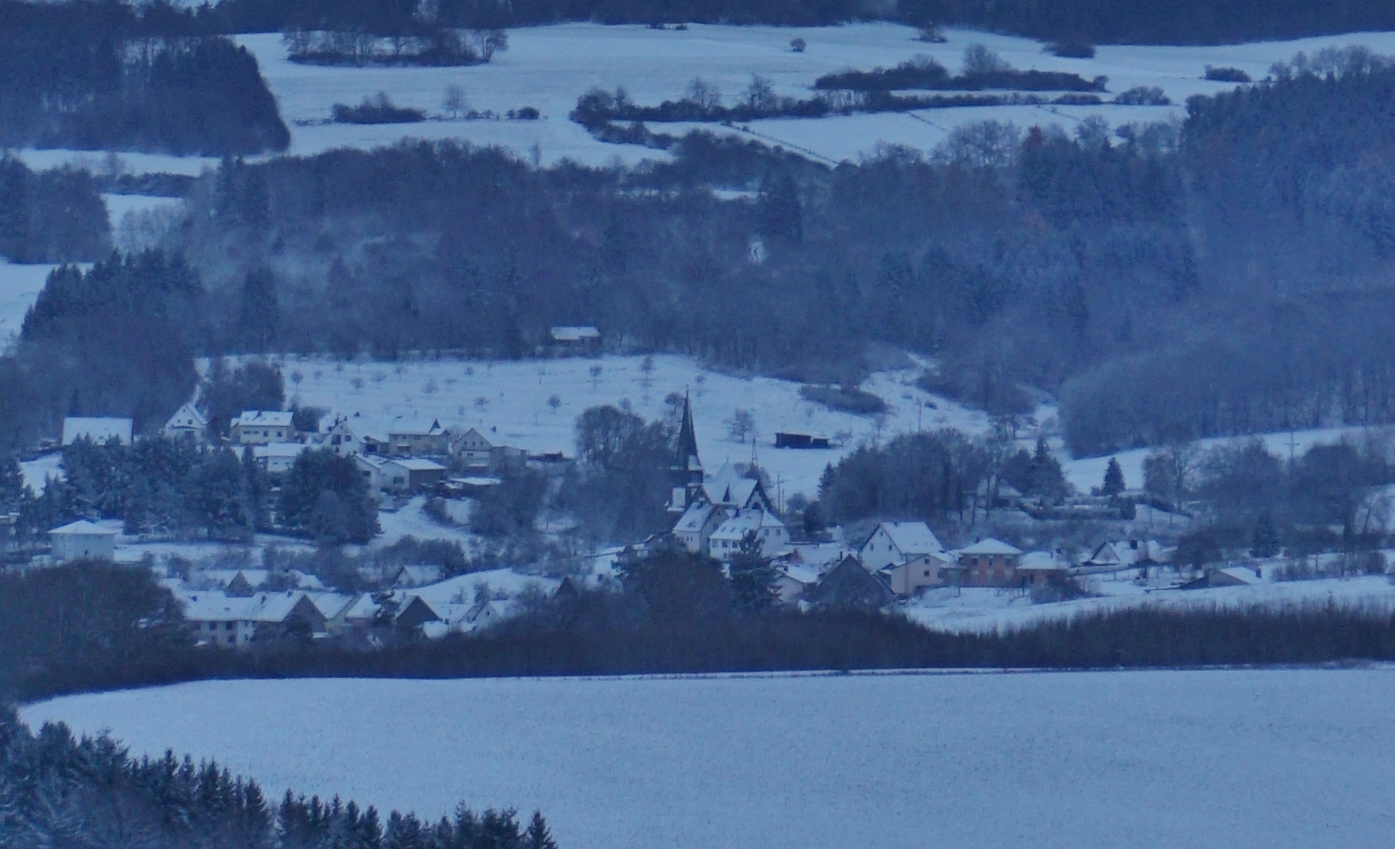 View of the snowy Berglangenbach (Germany) from Heimbach. In the centre the church of Berglangenbach can be seen.